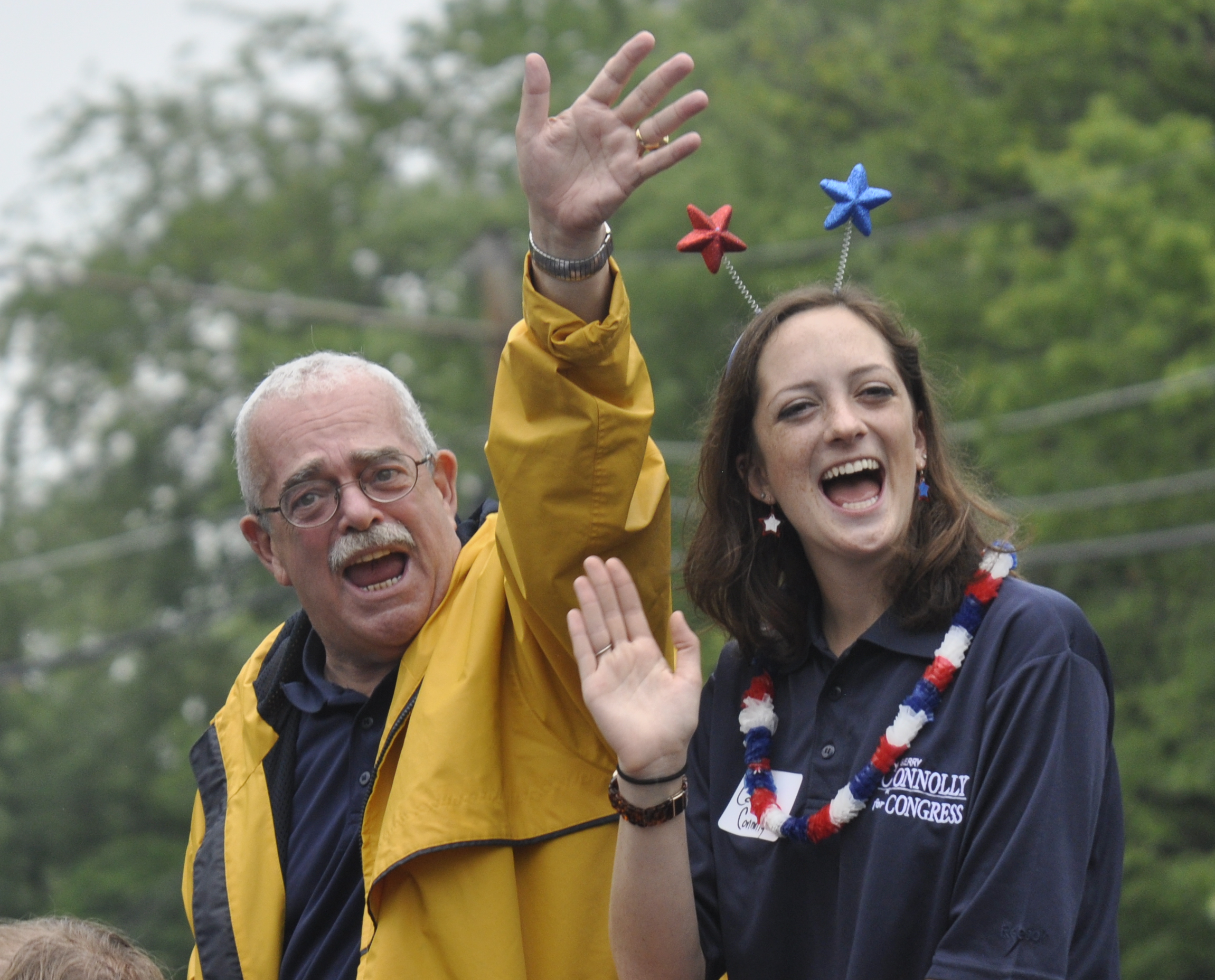 Gerry Connolly and his daughter Caitlin at Fairfax City 4th of July Parade